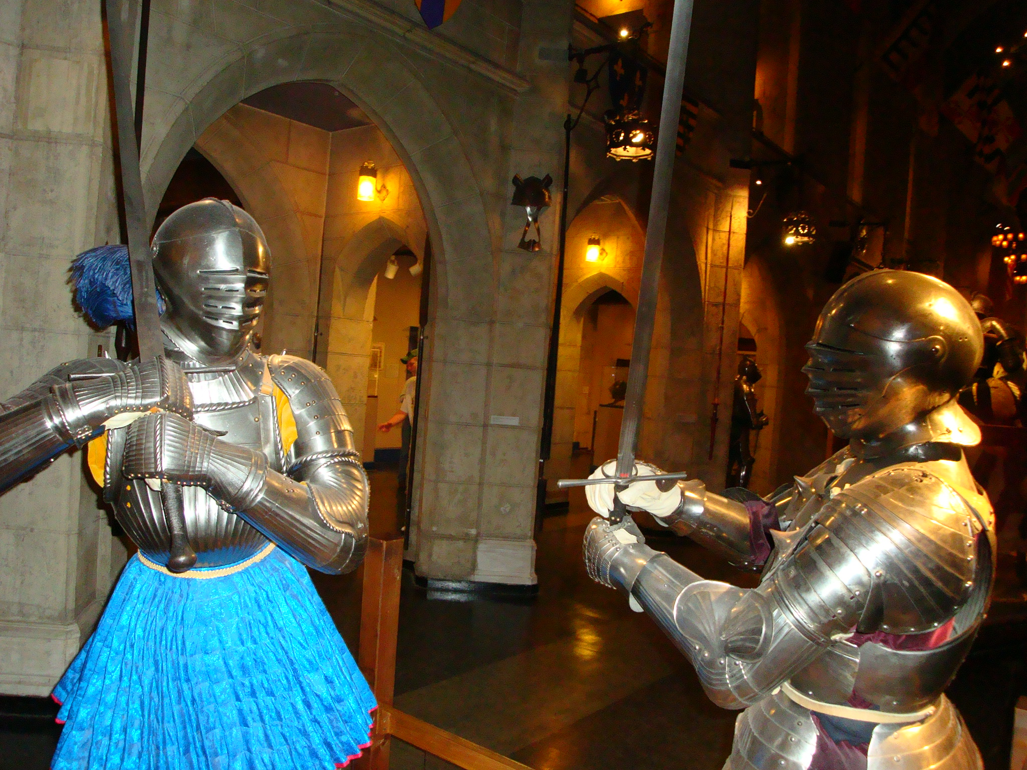 Knights fighting with Swords at Higgins Armory Museum, Worcester, MA